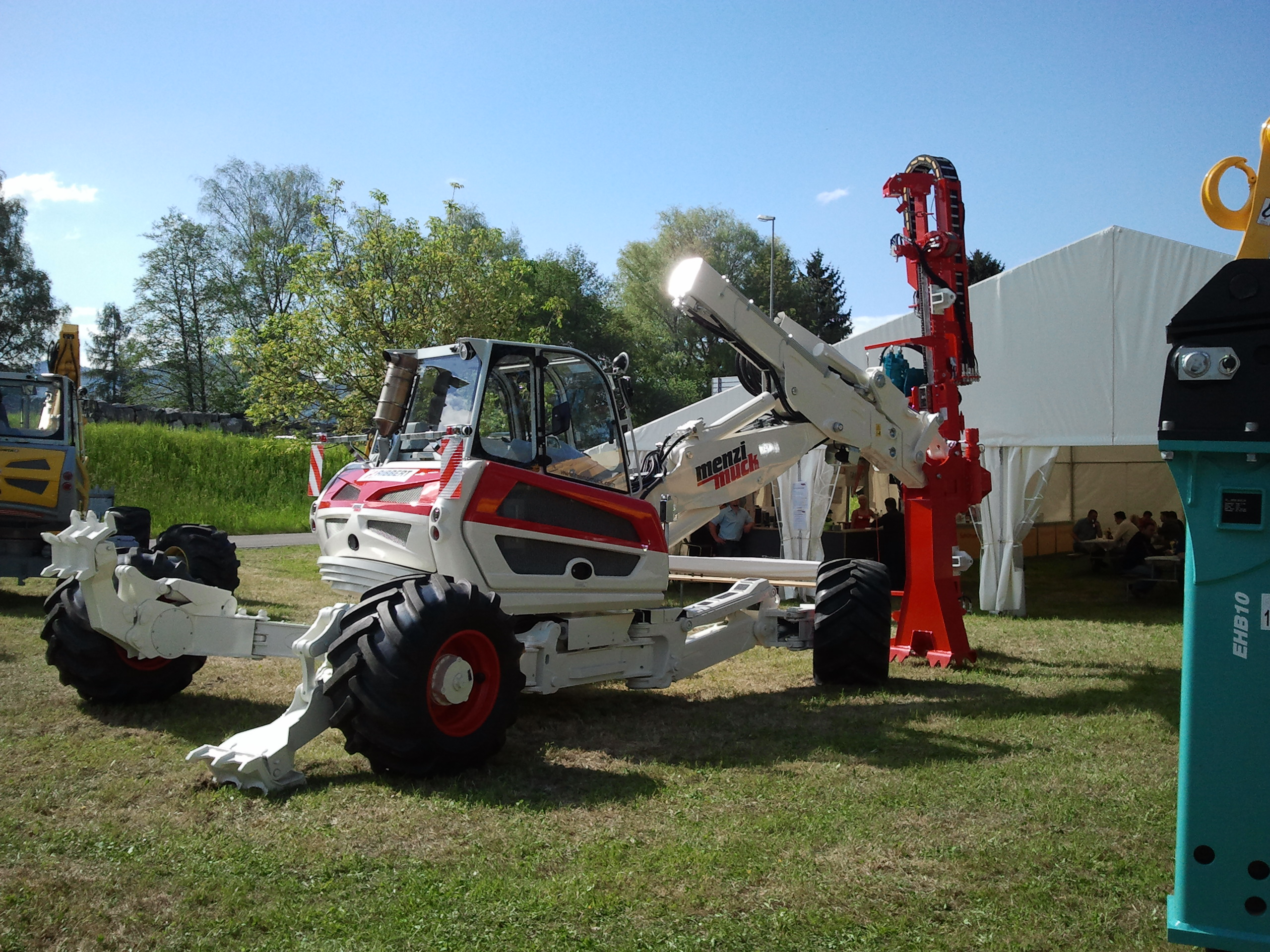 Factory Exhibition 2012 Menzi Muck Widnau. The latest generation of the walking excavator